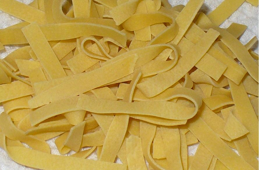 Egg noodles Source: Self Copyright: None